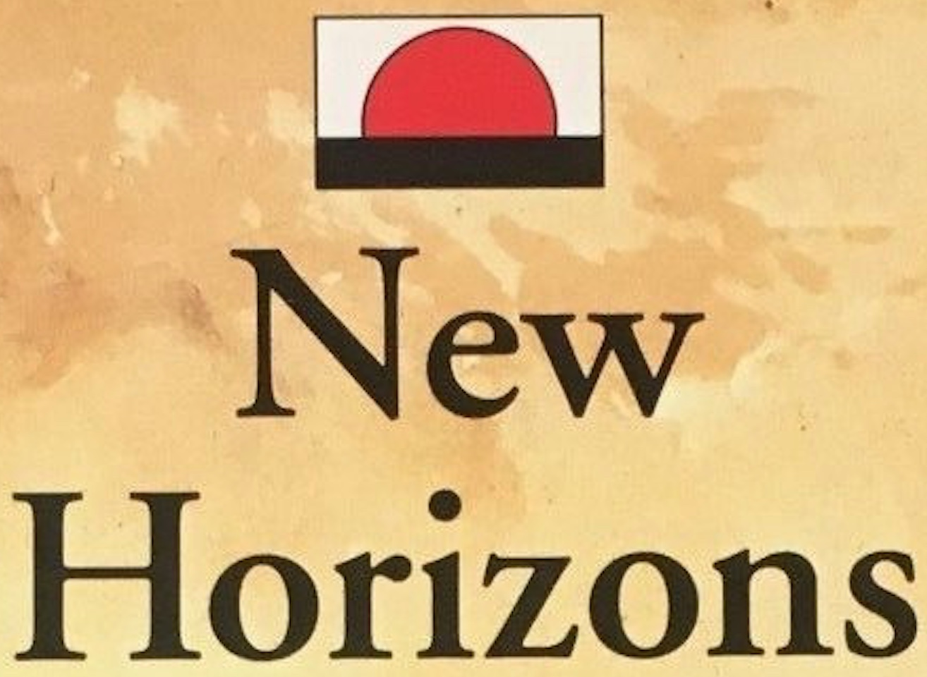 Logo of the book series ‘New Horizons’ published by the London-based publisher Thames & Hudson. British edition of the French collection ‘Découvertes Gallimard’.